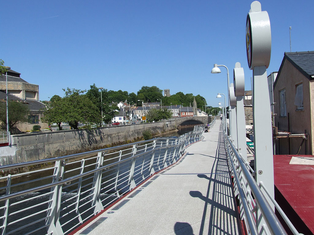 The Riverside walk over the Ogmore longside the town 2009.